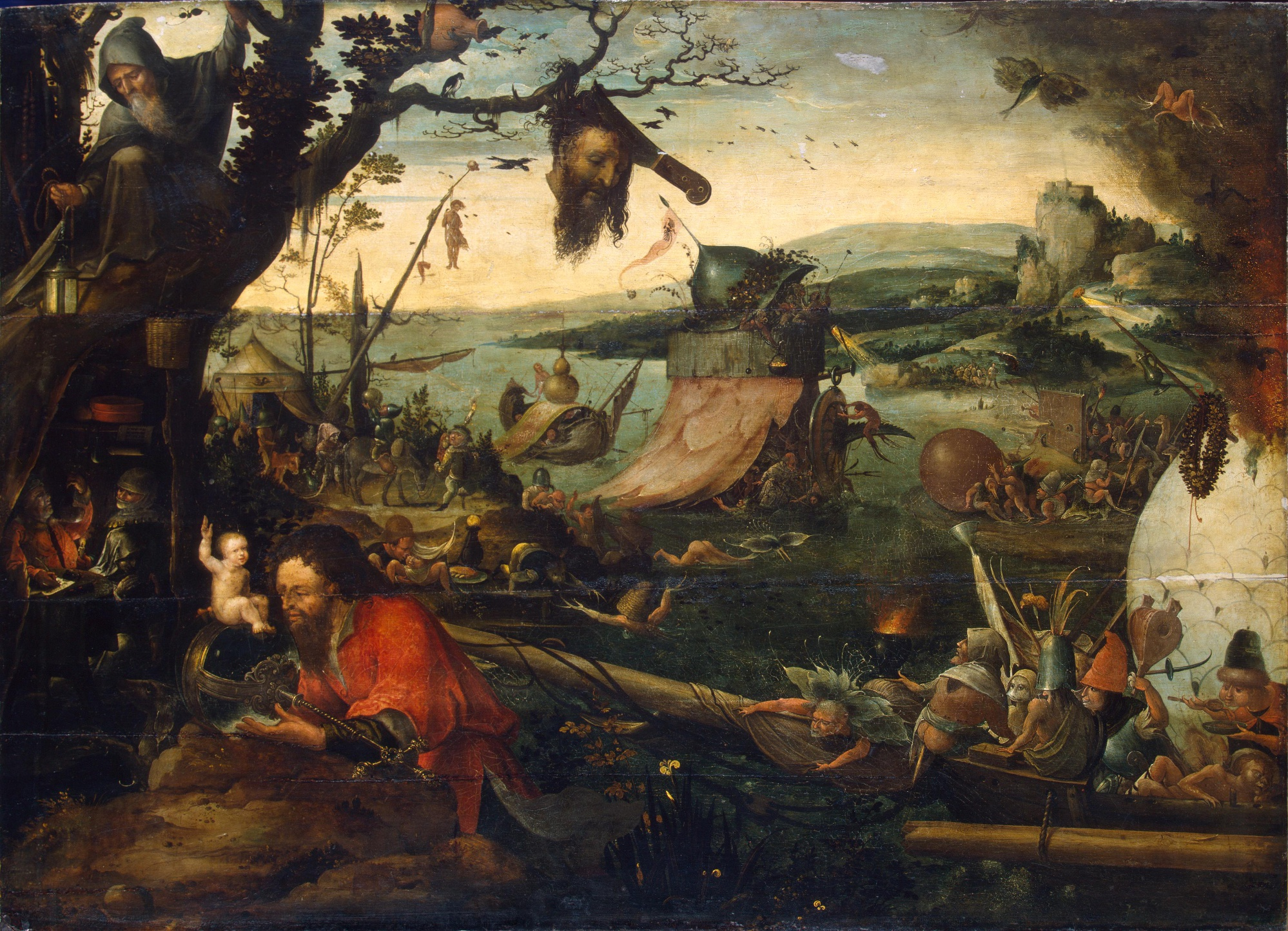 Saint Christopher.